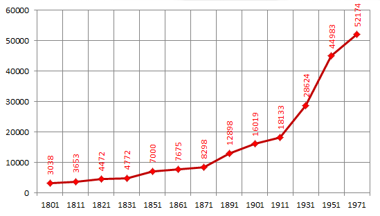 The population of the city of St Albans (1801-1971).